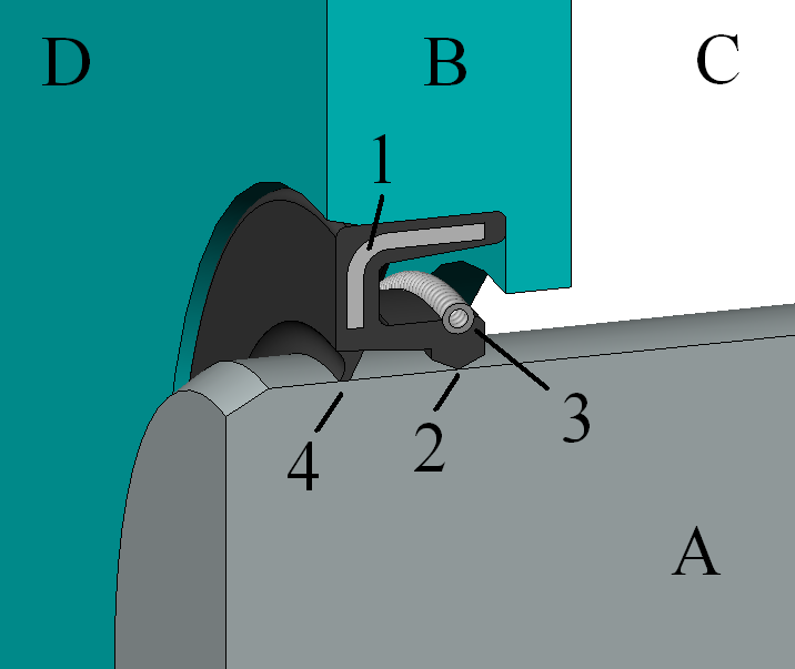 CAD drawing of a radial sealing (sectional view) with numbers A: Shaft B: Housing C: Liquid / higher pressure D: Air / lower pressure 1: Ring (metal) 2: Seal 3: pull-spring 4: Dust-seal (optional)